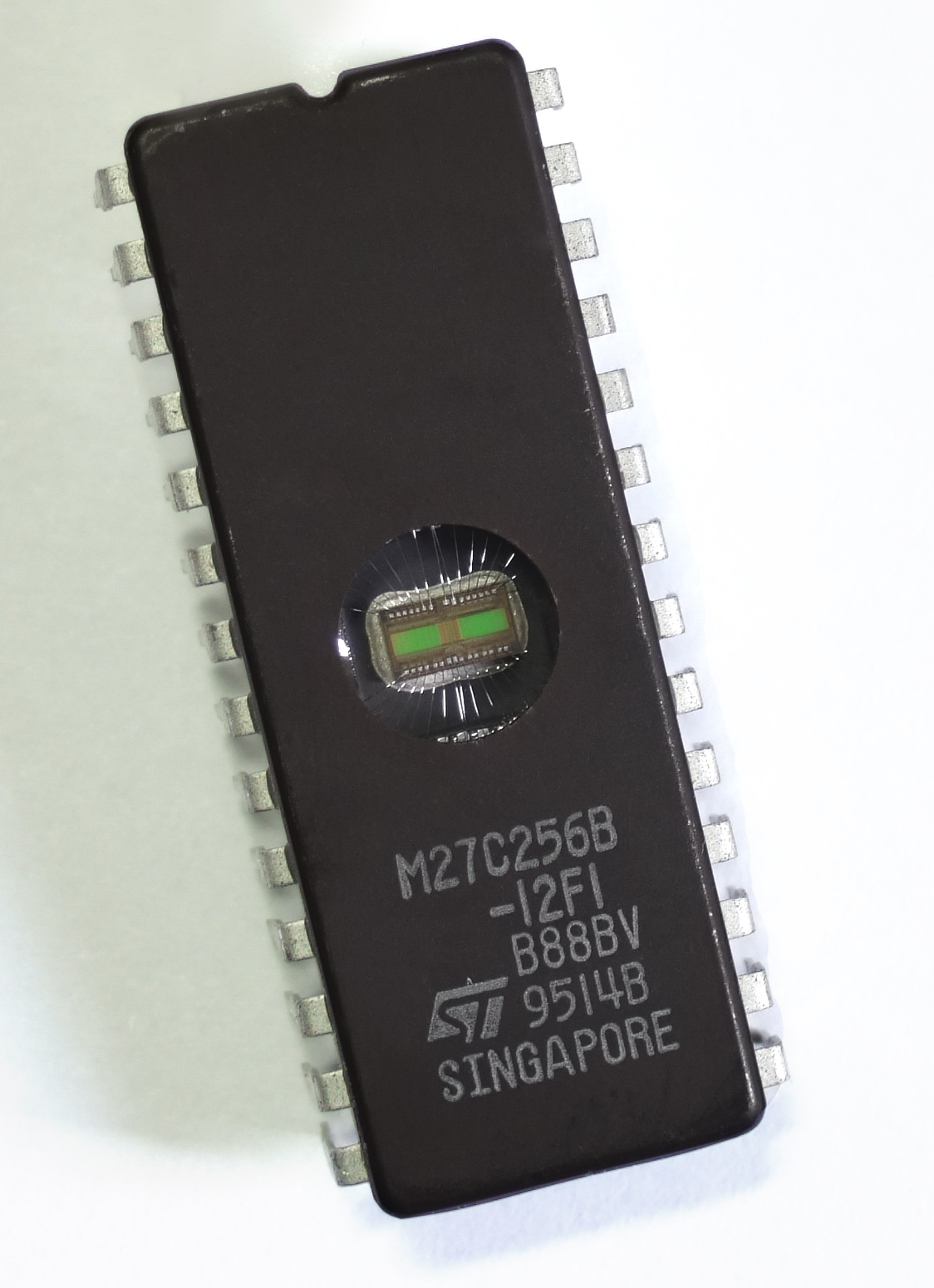 An ST Microelectronics 256Kbit 32KiB EPROM chip.